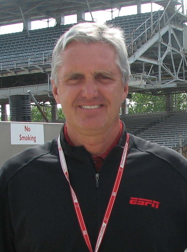 Eddie Cheever, Jr. at the Indianapolis Motor Speedway for second day qualifications for the 2009 Indianapolis 500.